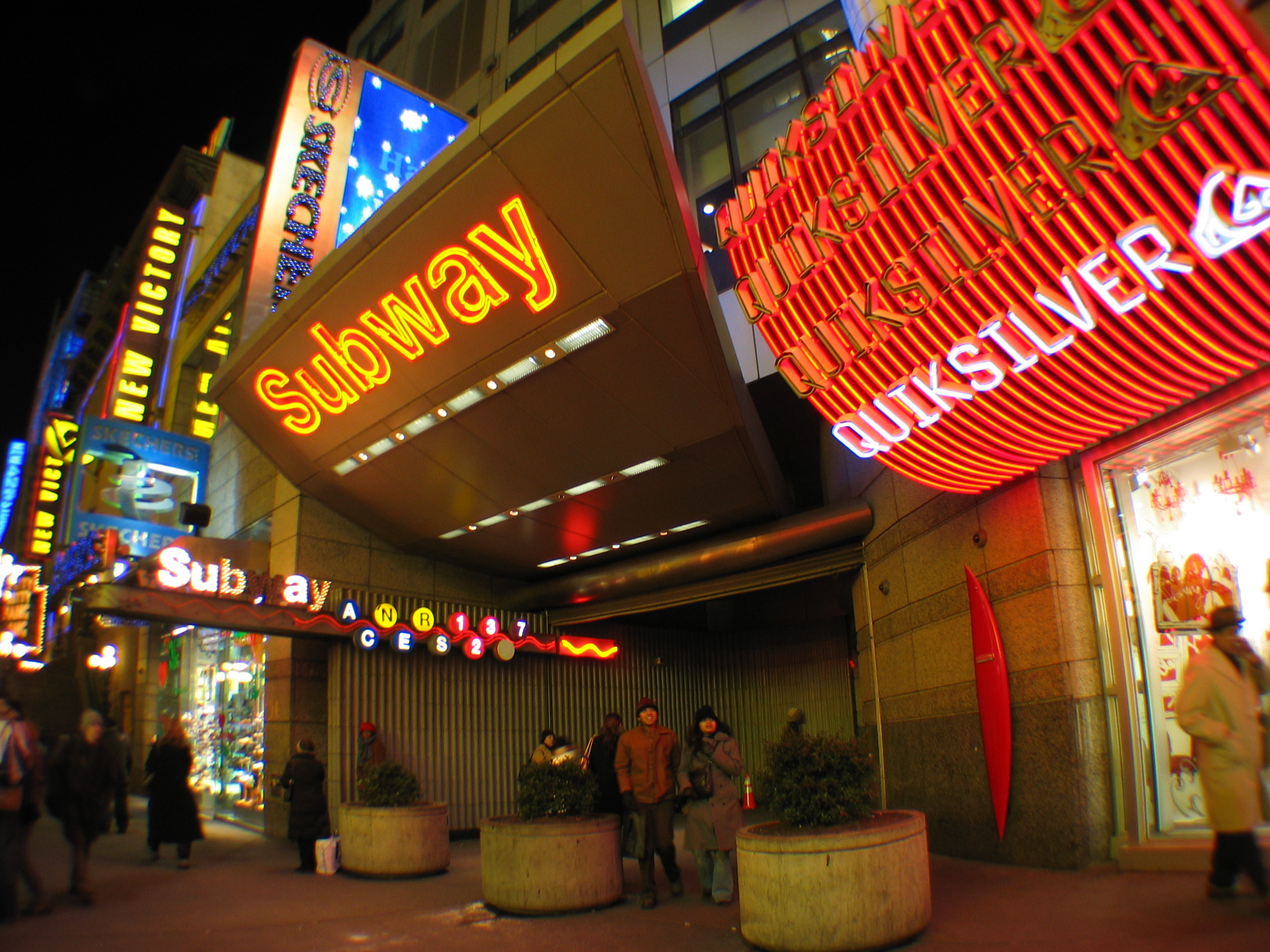 Station entrance of Times Square station